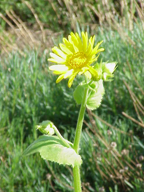 Species: Doronicum pardalianche Family: Asteraceae Image No. 1